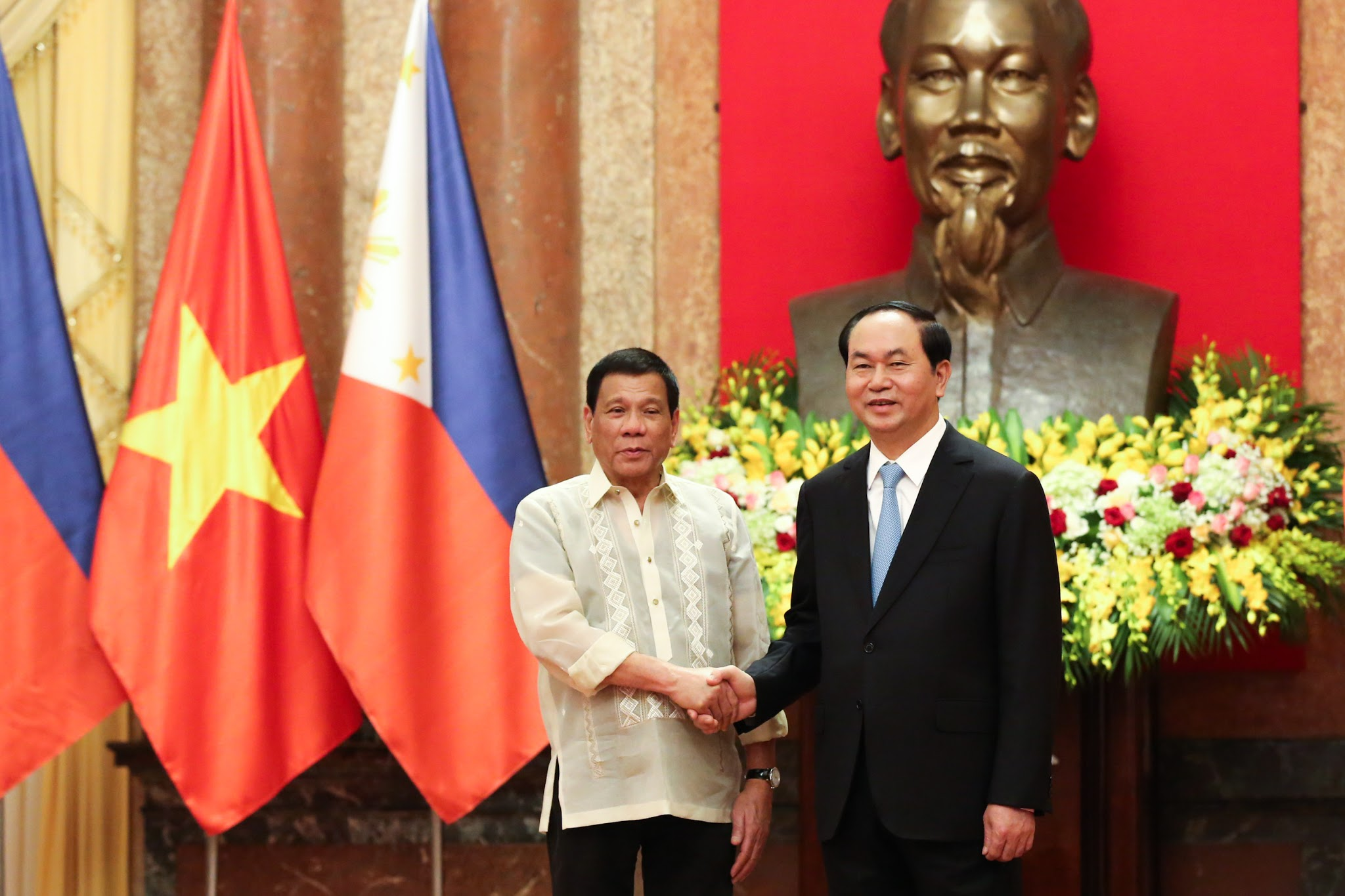 Philippine President Rodrigo Roa Duterte meets Vietnamese President Trần Đại Quang during a State Visit on September 29, 2016.